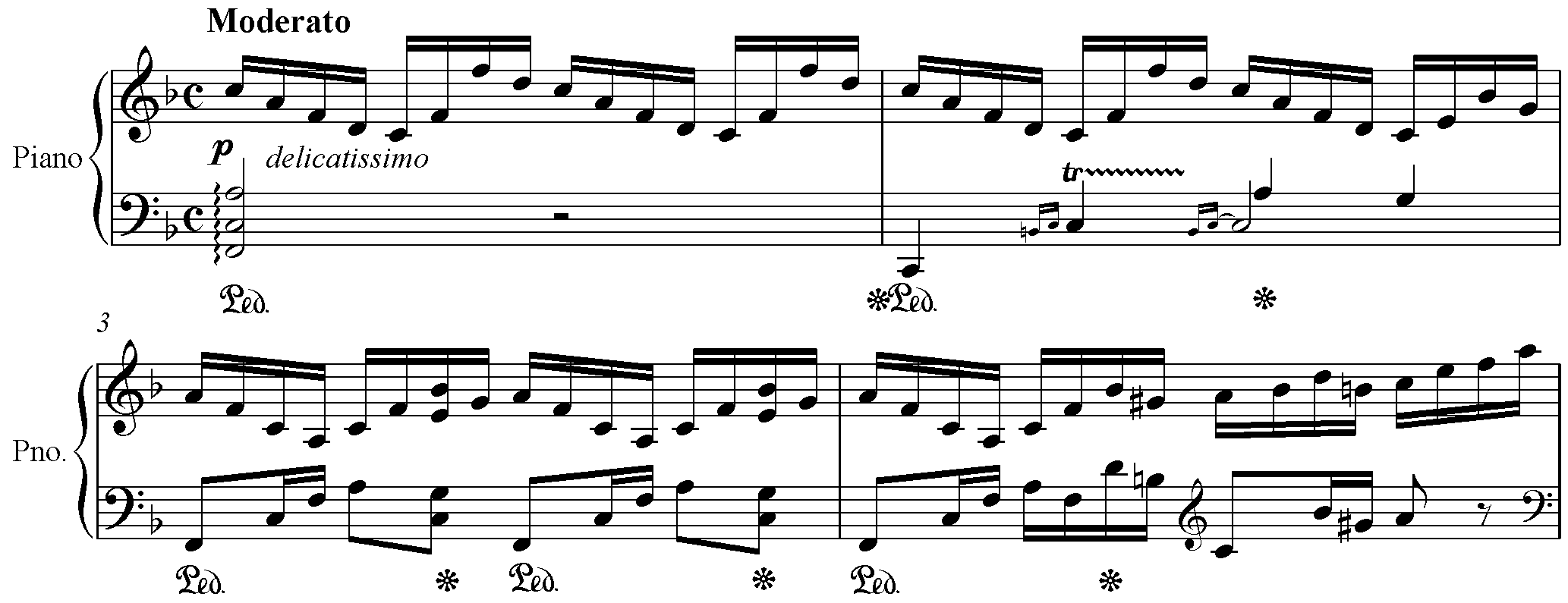 4 first bars of Chopins prelude 23 op. 28